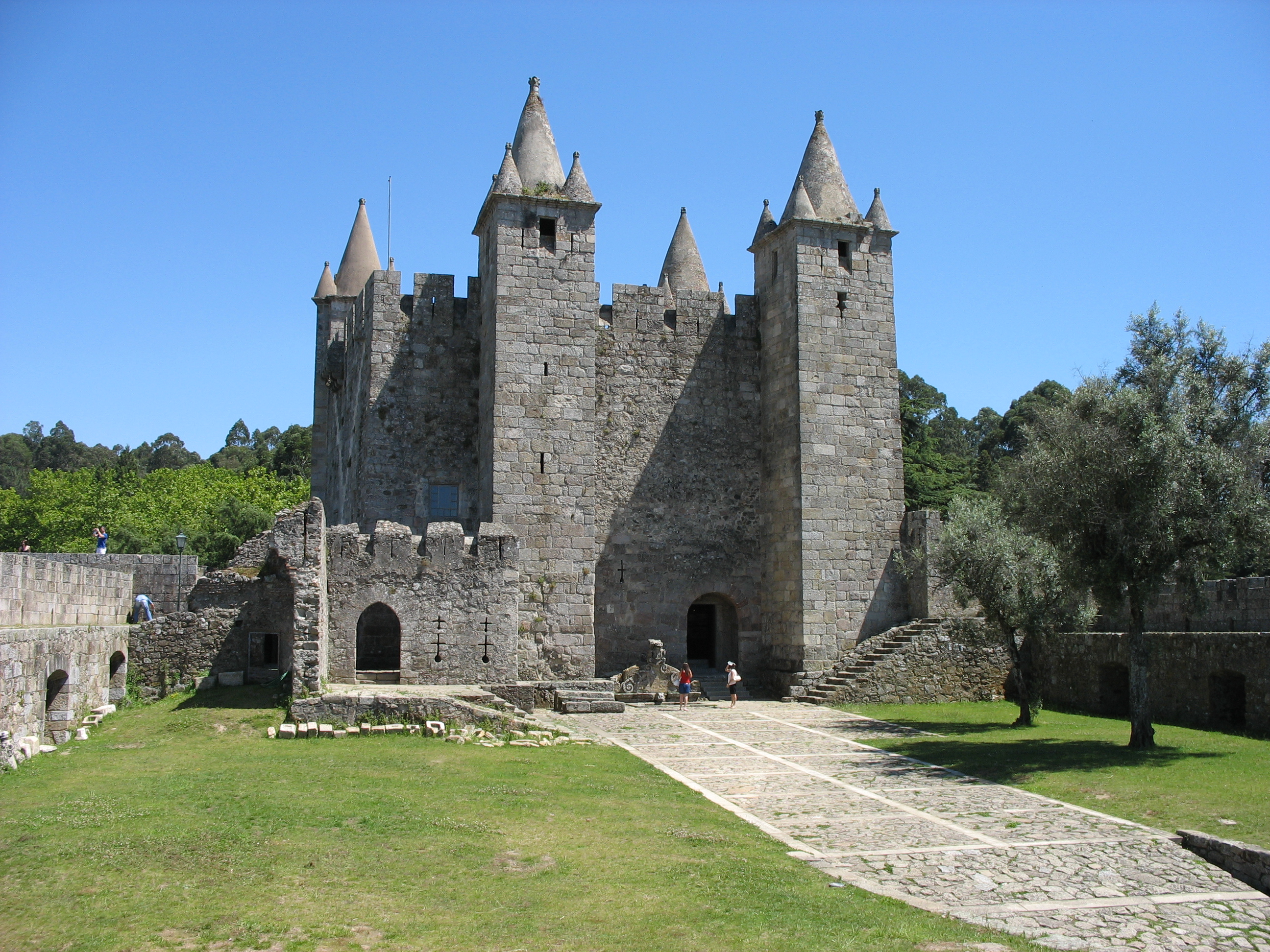 External view of the Castle.